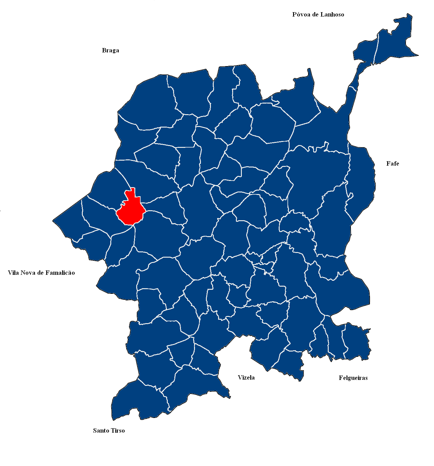 Map of Figueiredo parish, Guimarães Municipality, Portugal